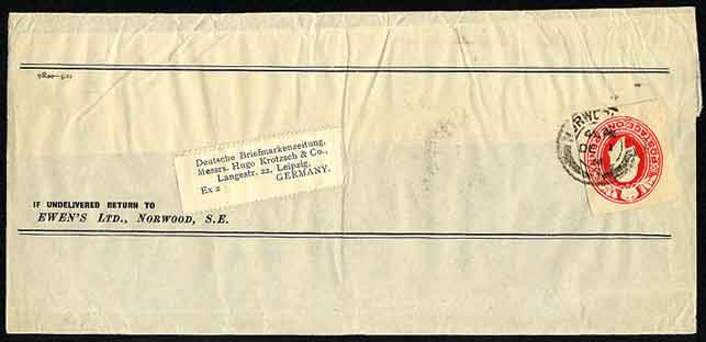 A newspaper wrapper has been stamped with a cut-out and is postmarked at Norwood on 1 December 1911. It would appear that it contained a philatelic publication and was sent out by Ewen's Ltd of Norwood SE to Deutsche Briefmarkenzeitung in Leipzig. H. L'Estrange Ewen was the owner of Ewen's Ltd.